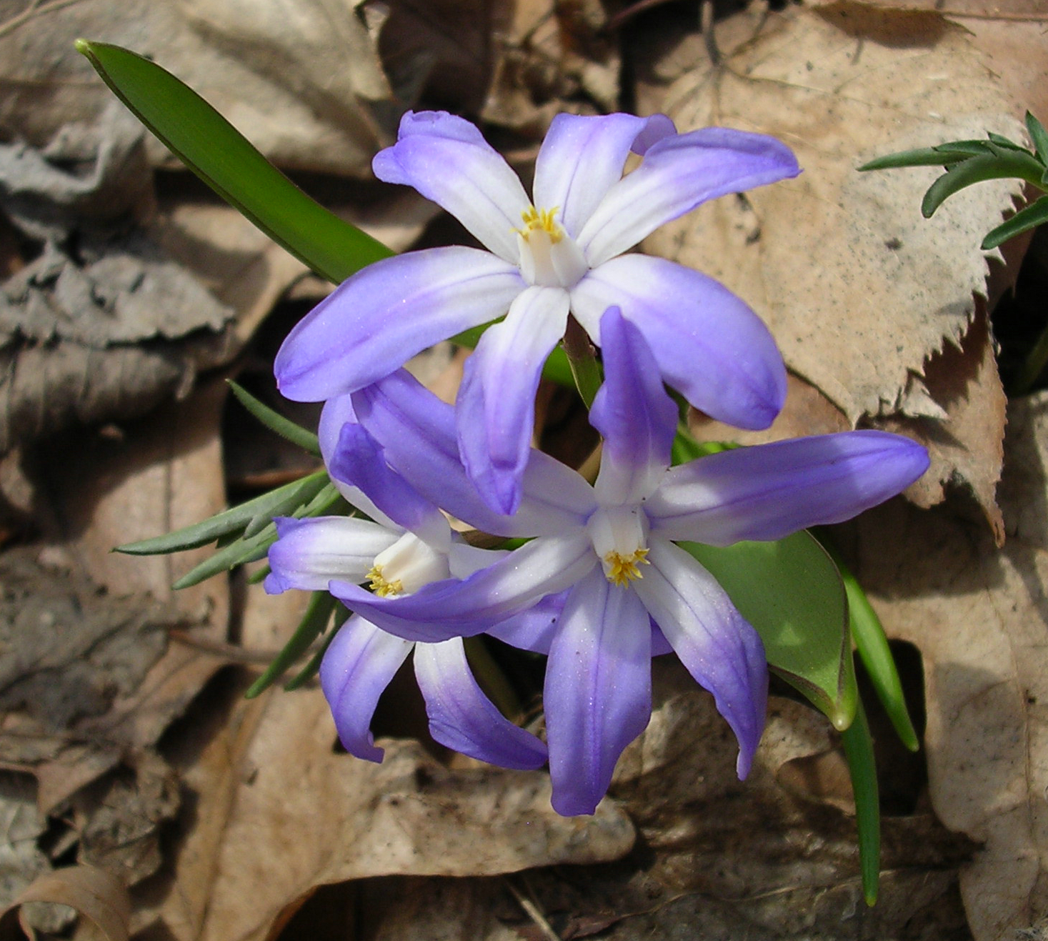 Scilla luciliae, The Morton Arboretum (East Woods) in Lisle, Illinois.